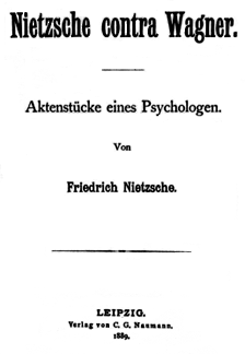 titlepage